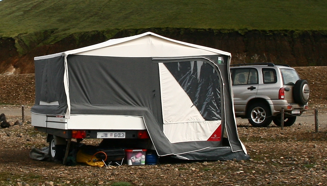 A white tent trailer, spotted on Iceland at Landmannalaugar. Looks like the Danish brand Combi-Camp.